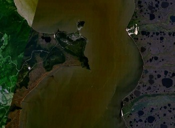 Satellite picture of the Tatar Strait